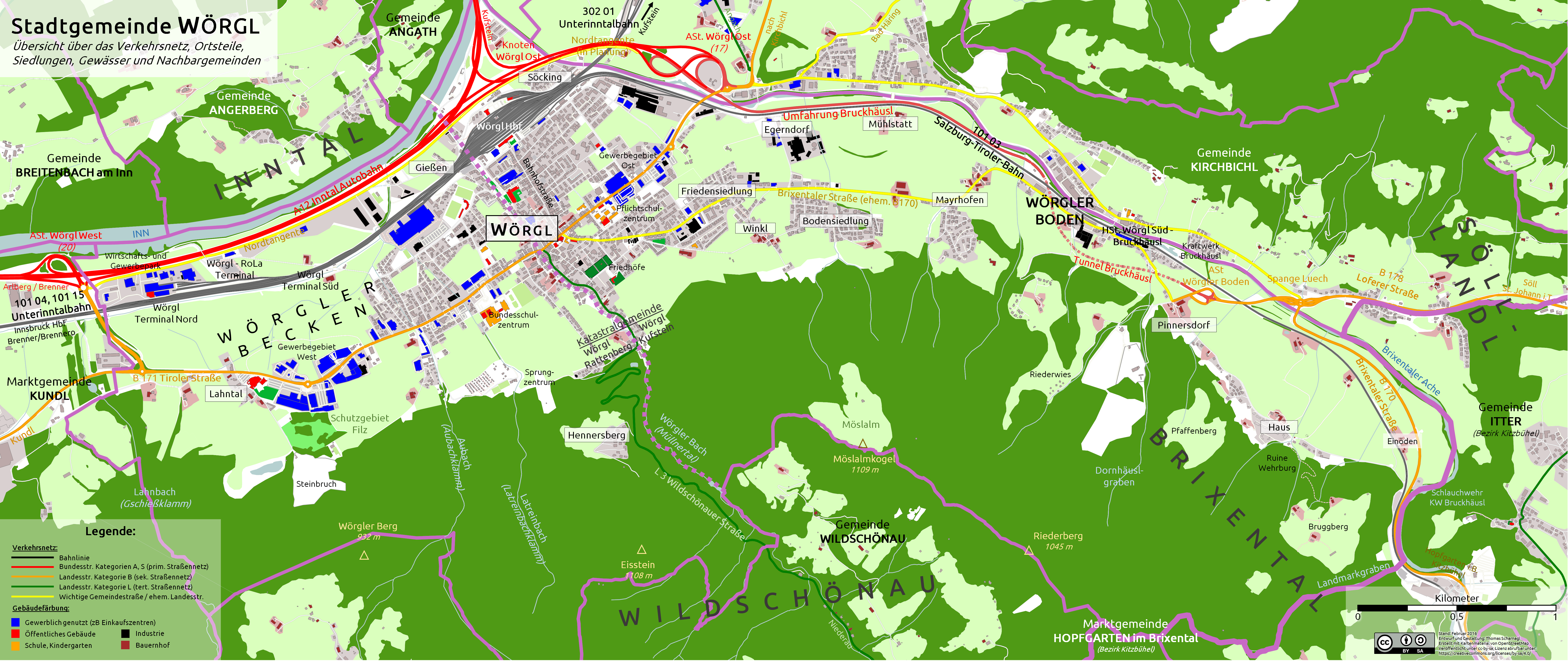 Map of the city of Wörgl in Tyrol (Austria).